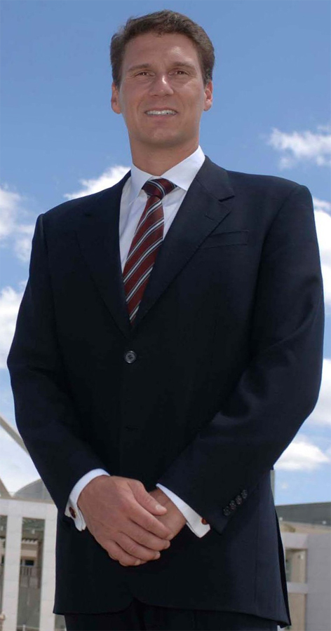 Cory Bernardi, Liberal Senator for South Australia